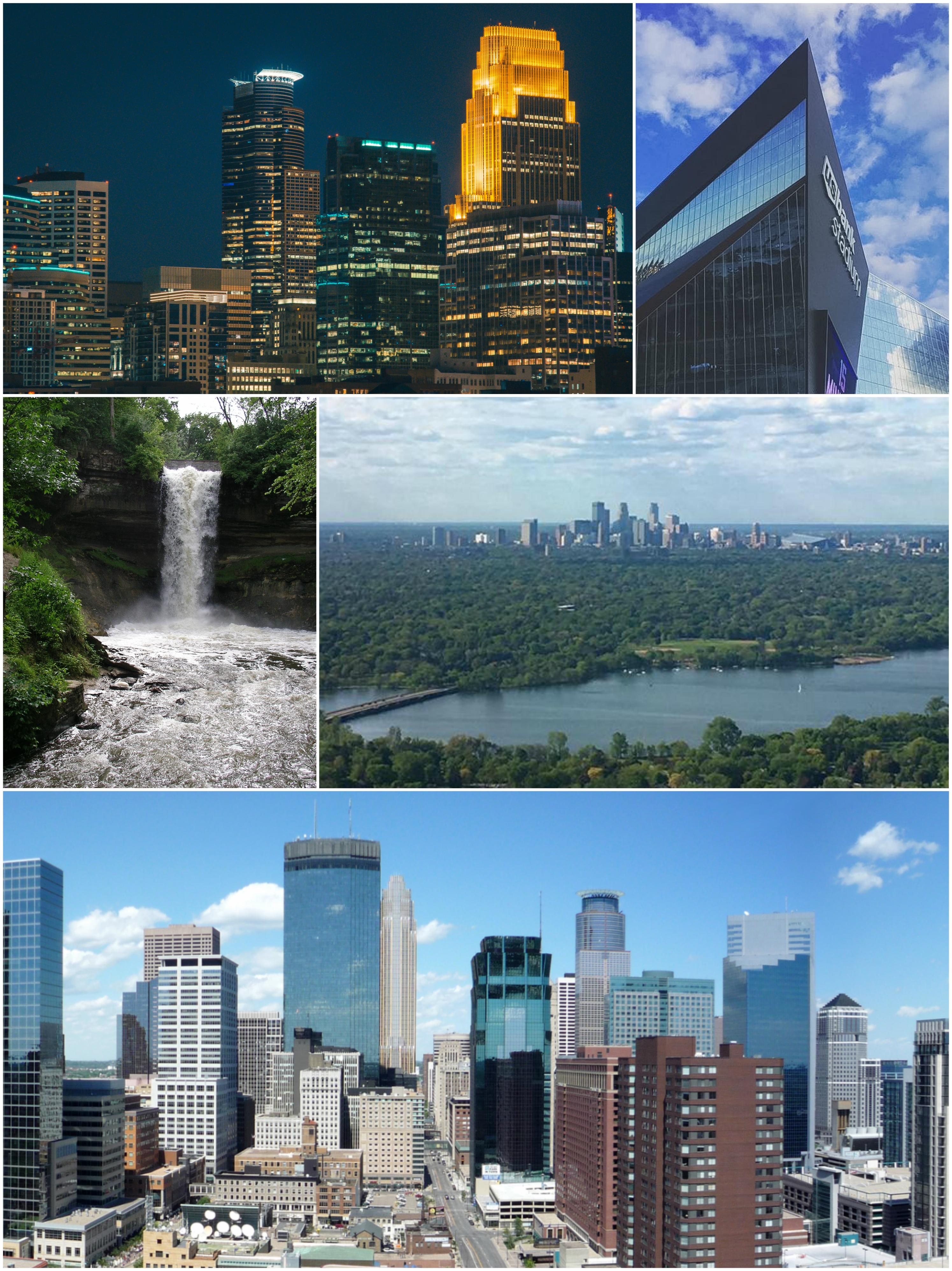 Collage of Minneapolis, including skyline, stadium, and waterfall.